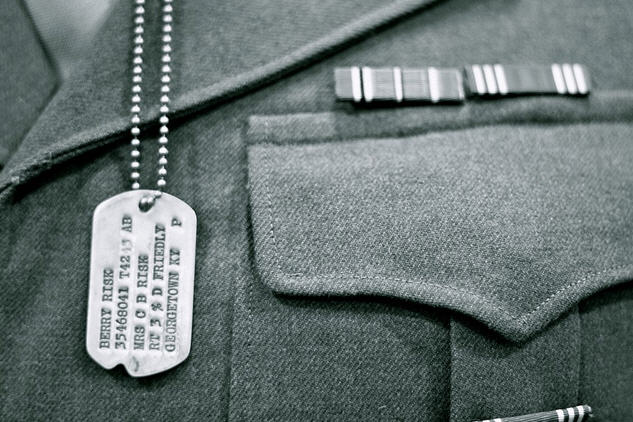 Dog tags from World War II (possibly Army-Air Corps), labeled "P" for Protestant.